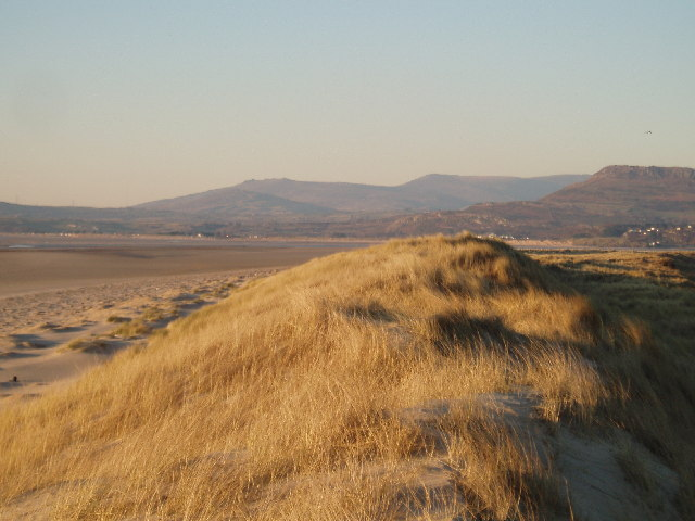 Dunes at Morfa Harlech. Nearing the end of the dunes Harlech beach turns east into Traeth Bach (the estuary of the Glaslyn & Dwyryd rivers). Black Rock sands run across the centre of the photo.